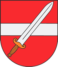 Coat of arms of the Latvian city of Dobele.